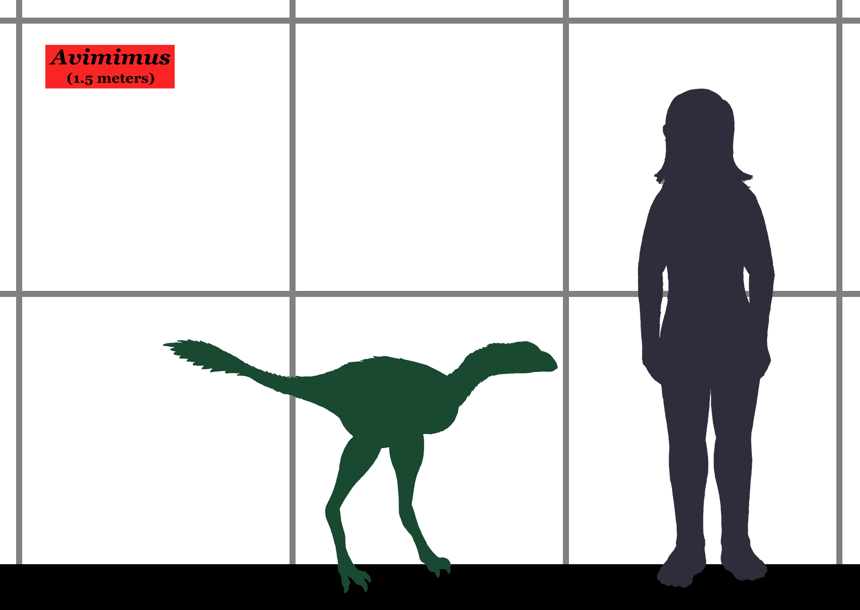 Size comparison between the oviraptorosaurian dinosaur Avimimus and a human.